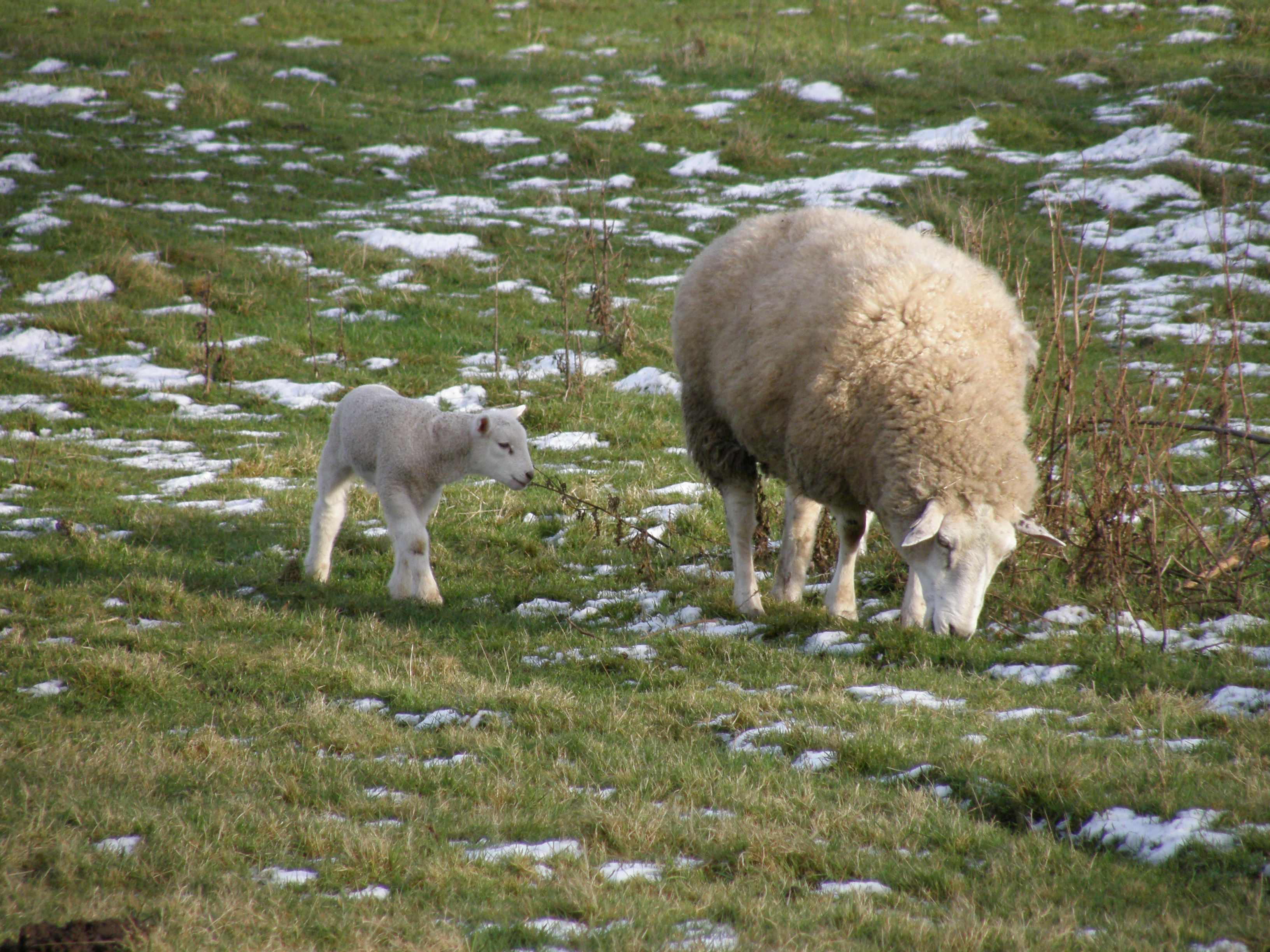 Schaf, sheep, Ovis aries, Germany, Dersau